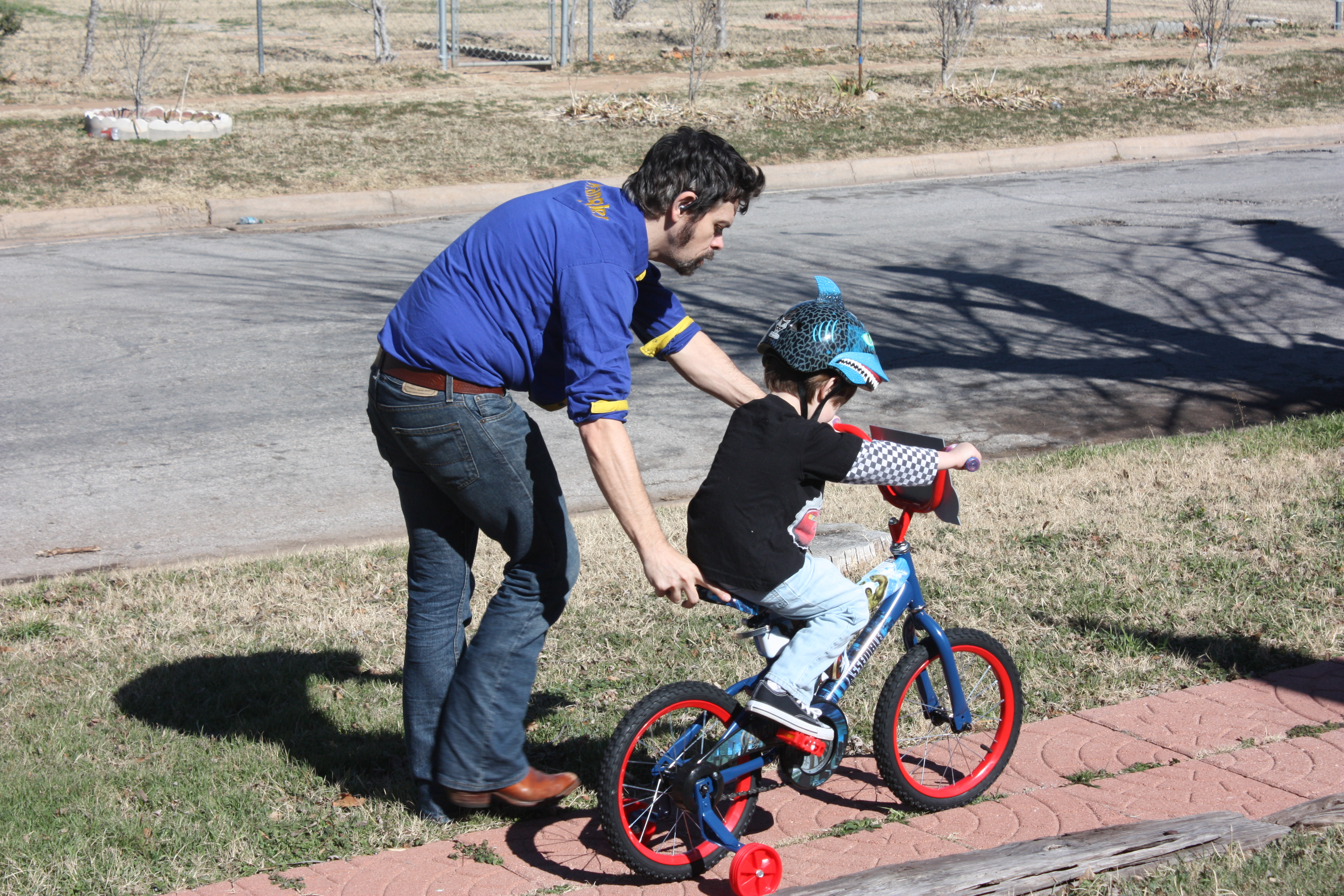 Father and son learning to ride a bike!